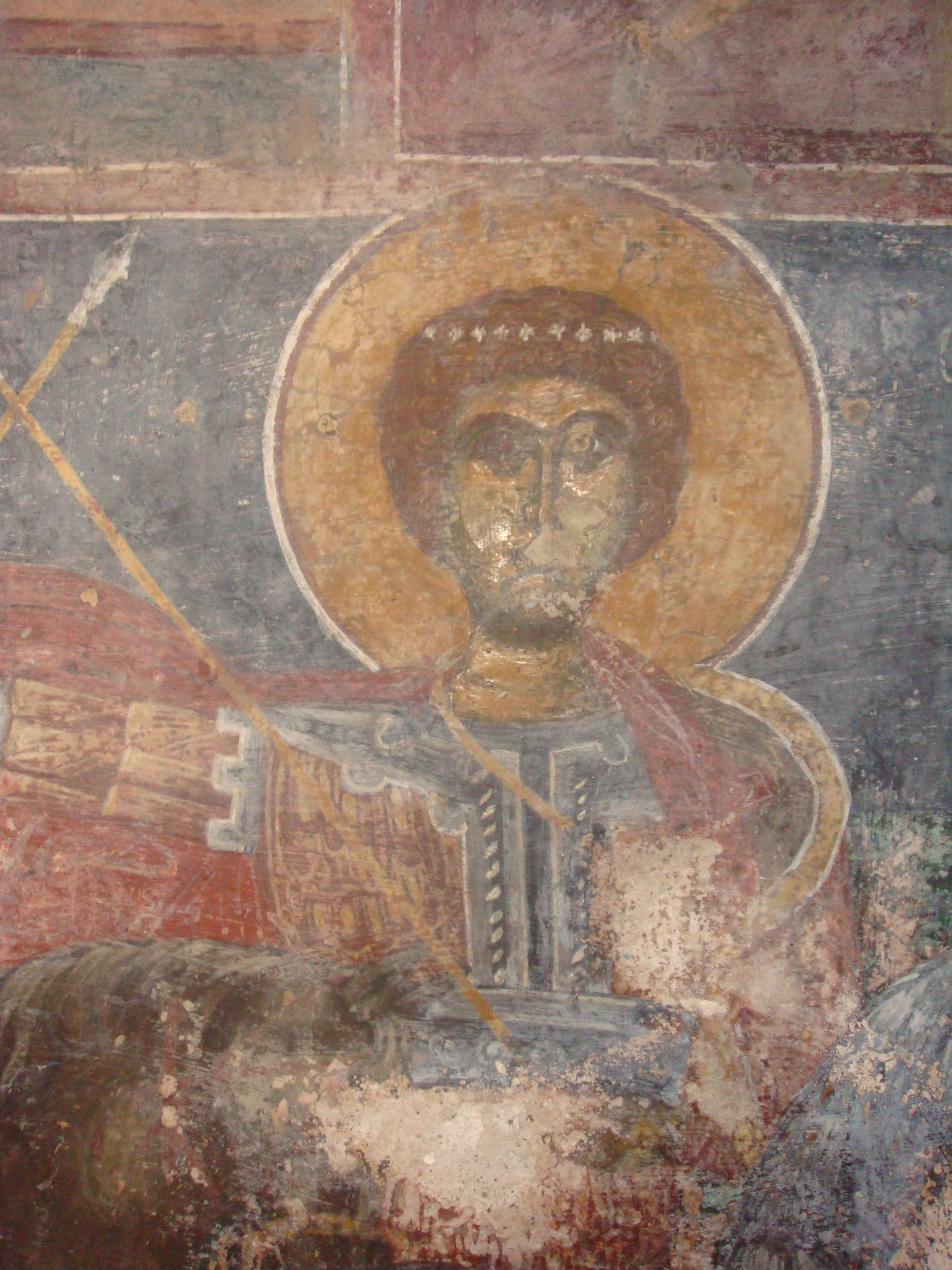 A wall picture from the church of Agia Pelagia, dated back to 14th century, in Ano Viannos.